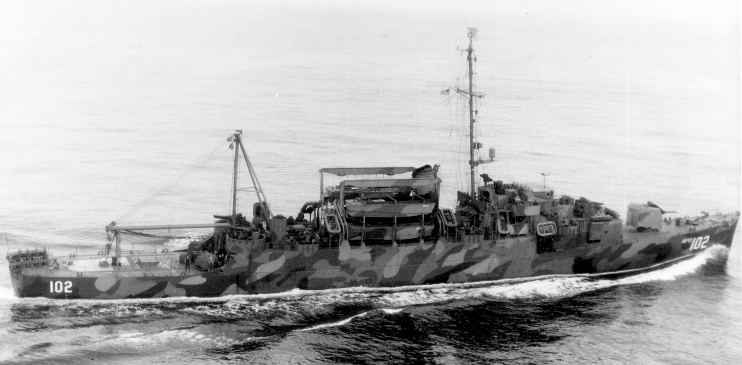 The U.S. Navy high-speed transport USS Rednour (APD-102) underway in the Atlantic Ocean on 20 February 1945. She is painted in Camouflage Measure 31, Design 20L.